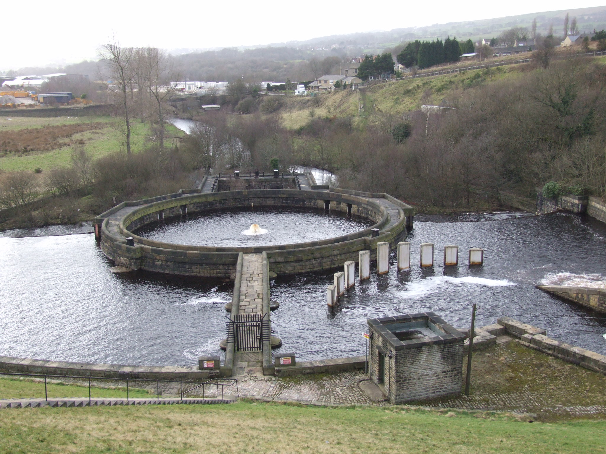 Longdendale in Derbyshire is the valley of the River Etherow. The Longdendale Chain is a series of reservoirs built to provide drinking water forManchester The Waterworks at Tintwistle, from the dam of the Bottoms Reservoir. - OpenStreetMap (Info)